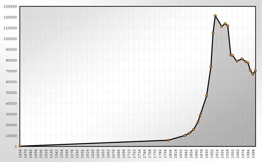 This image shows the population statistics of Plauen (Germany).